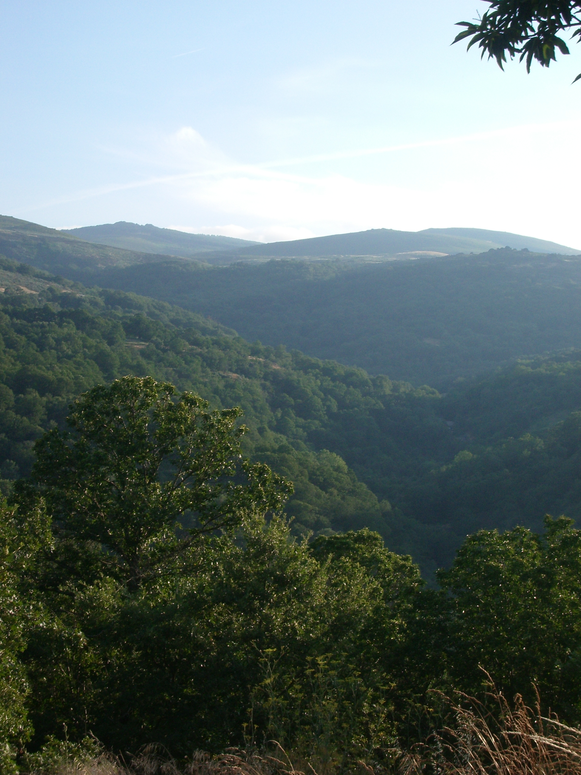 View of the middle course of river San Lázaro from the parish Sobrado de Trives in the section between Os Forcados and a Paleira .